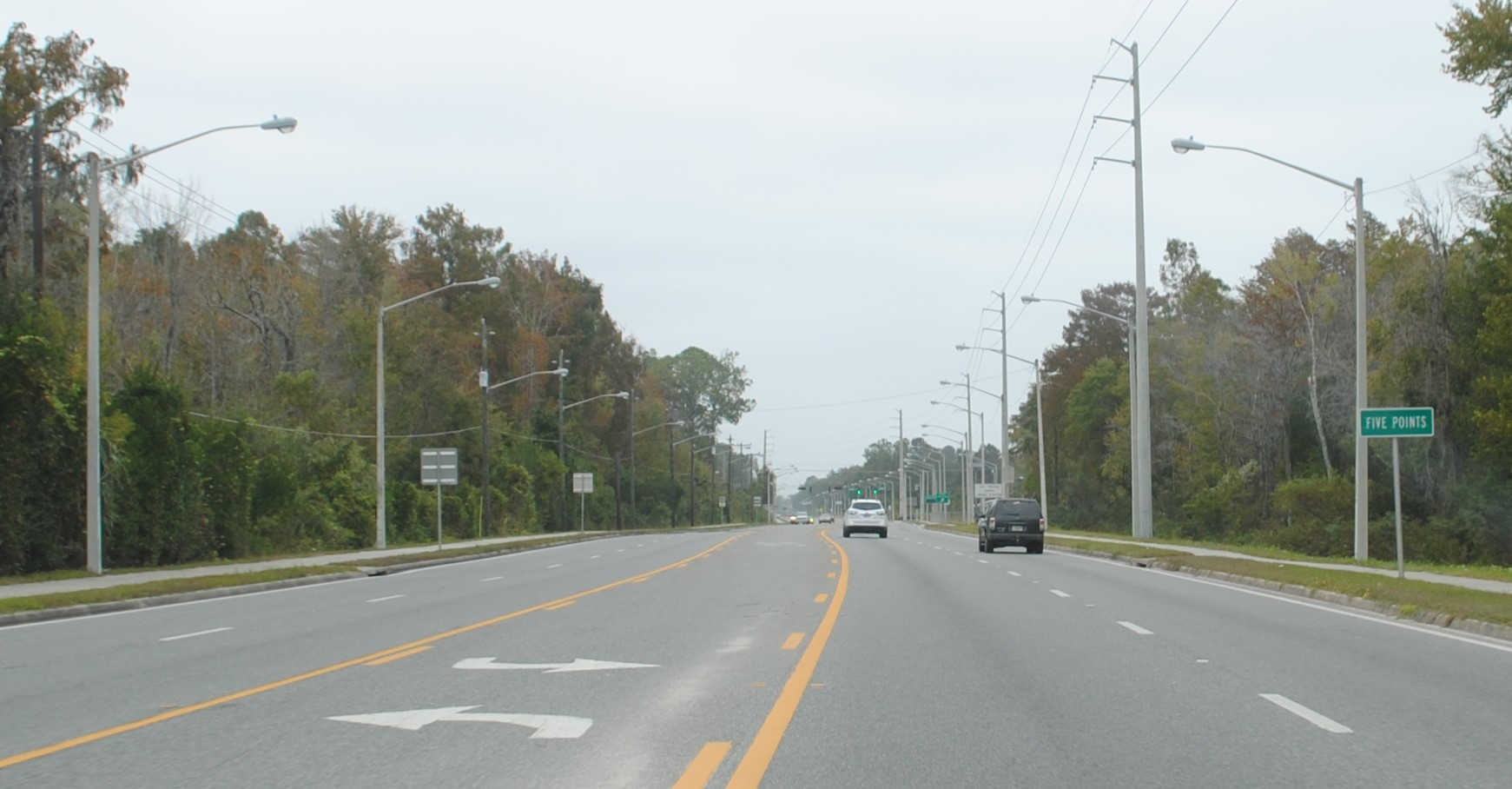 US Route 441 in Five Points, Florida